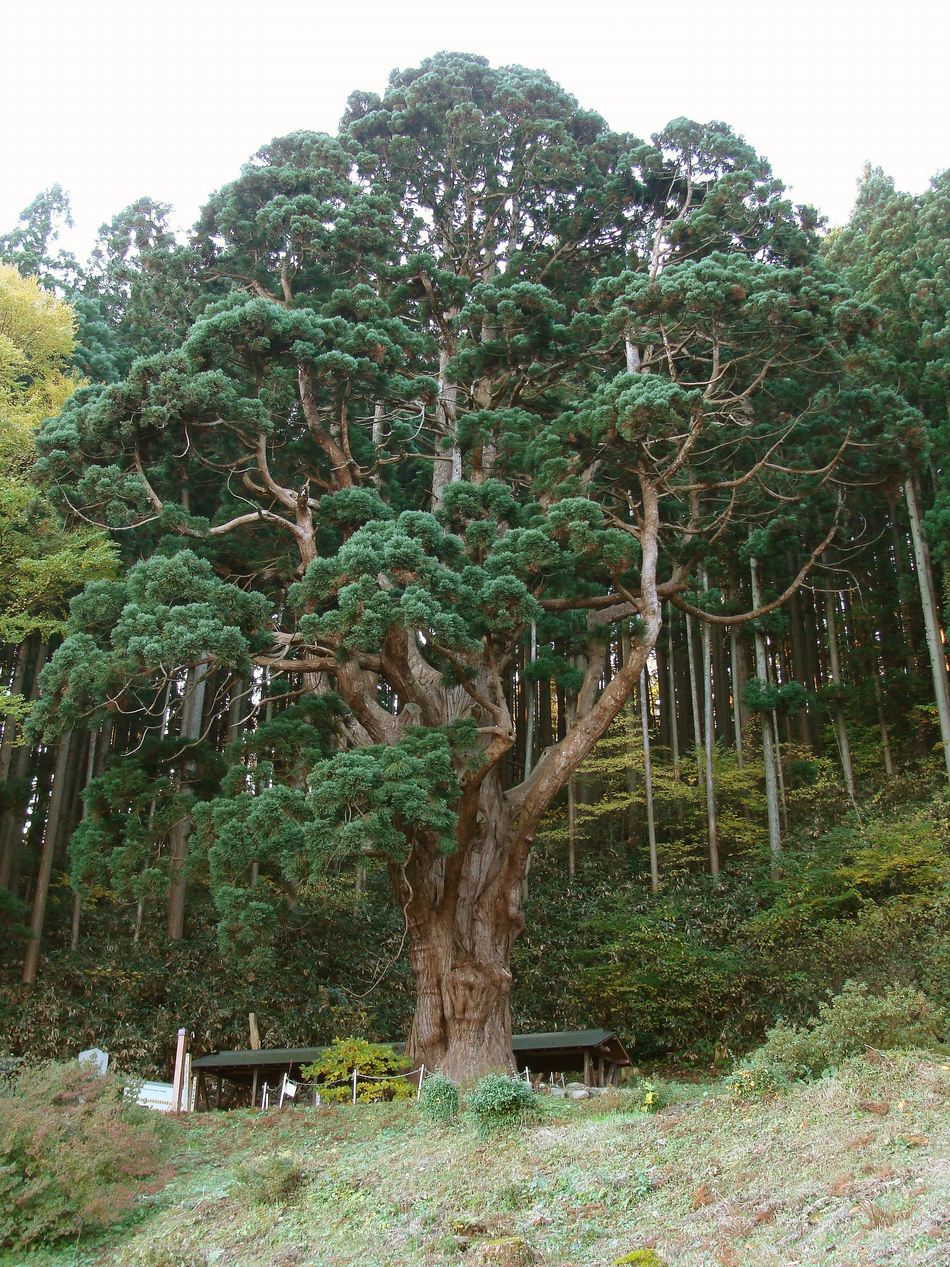 Old Sugi Cryptomeria japonica, Fukaura town, Aomori prefecture, Japan. Location reference